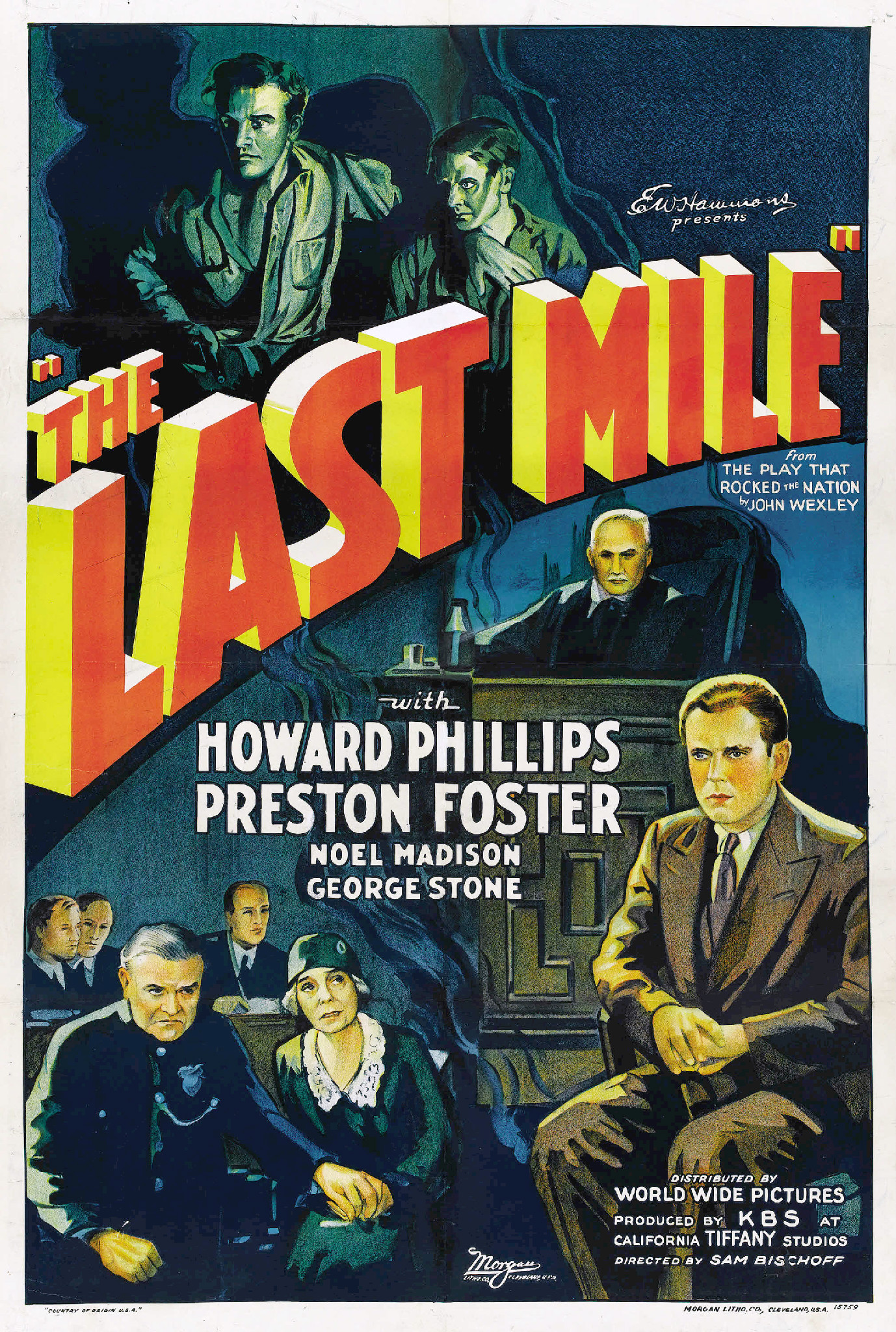 Poster for the American crime drama film The Last Mile (1932). There are no copyright marks on the item. At bottom left is Country of origin USA. At bottom right is Morgan Litho Co. Cleveland, USA--they printed the poster-- and 15759-likely a print job number.